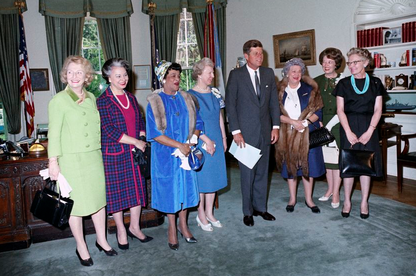 Seven women standing in a row with the President, in the Oval Office, in 1963.